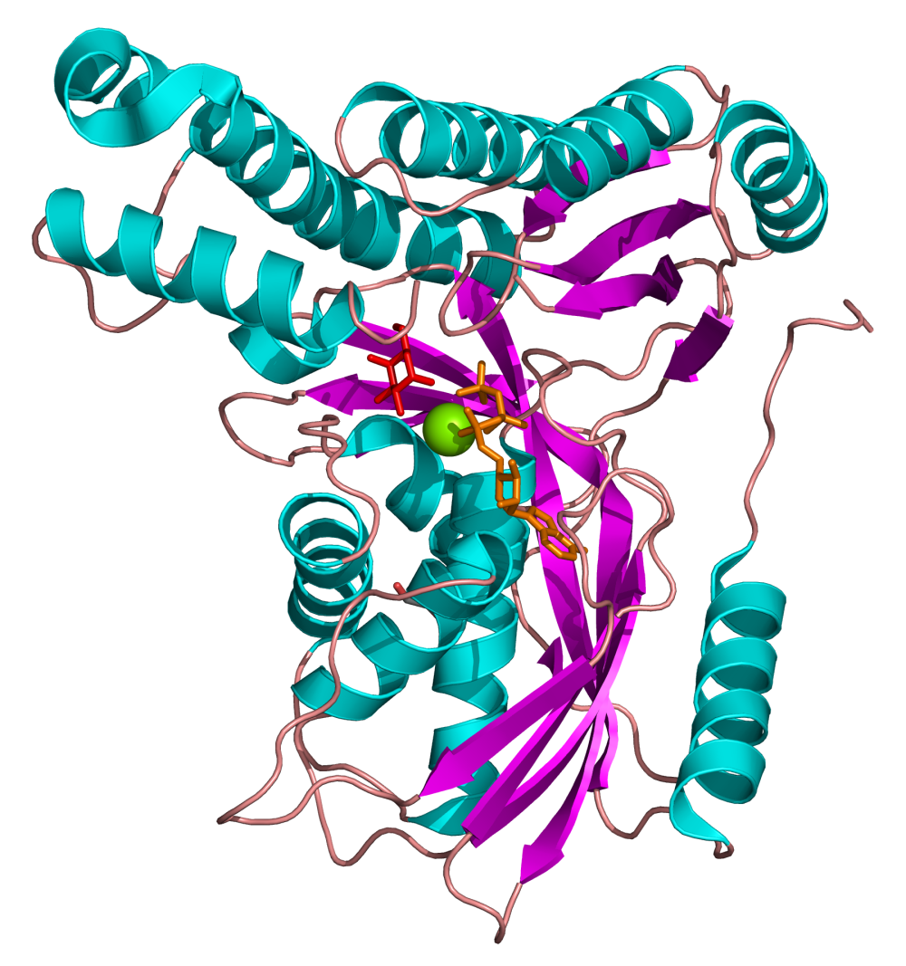 Cartoon diagram of a human galactokinase 1 monomer in complex with galactose (red) and an analogue of adenosine triphosphate (orange). A magnesium ion is visible as a green sphere. Created using PyMOL ( and GIMP. Orientation made to match original source.